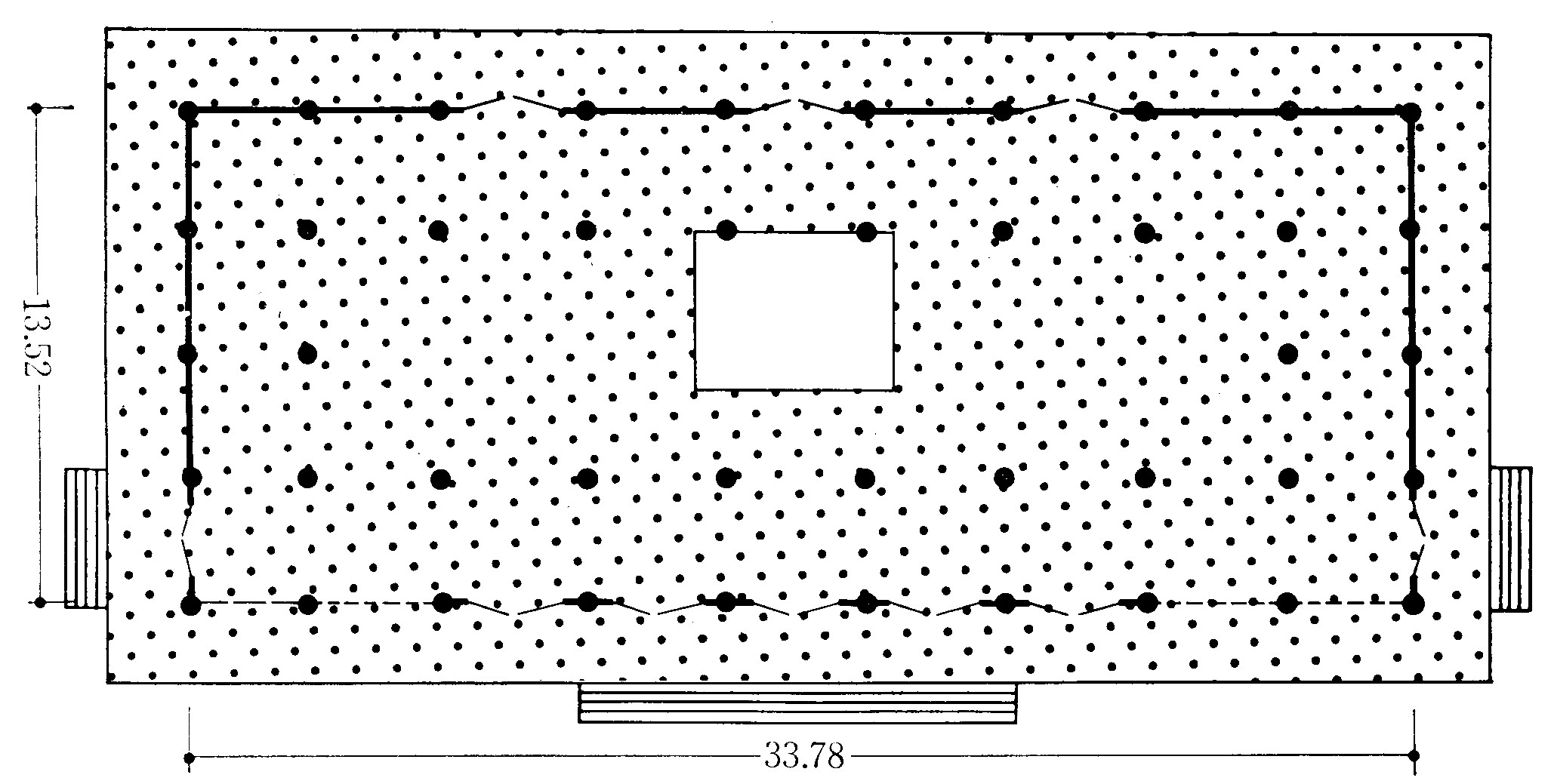 Layout of Tōshōdaiji Kōdō, Nara Japan